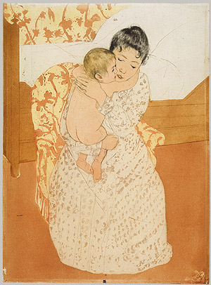 Mary Cassatt, Maternal Caress, 1891, Drypoint, aquatint and softground etching, printed in color from three plates; sixth state of six (Mathews & Shapiro)